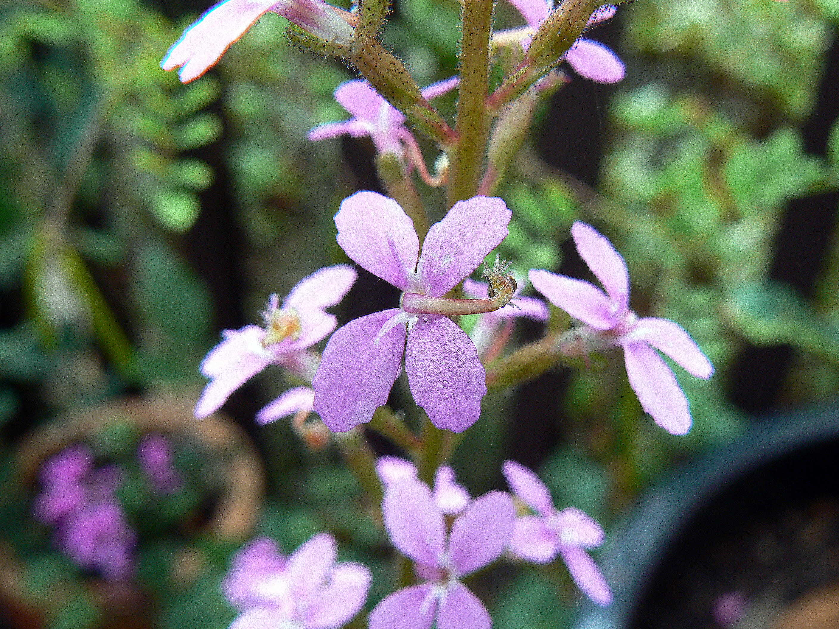 Image of flower of Stylidium productum, a trigger plant restricted to the Sydney area of Australia. Photo taken by me (Margaret Morgan) on 27 October, 2006 at Turramurra, NSW, Australia.